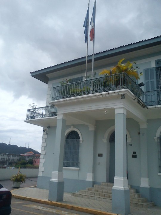 Embassy of France, Panama City